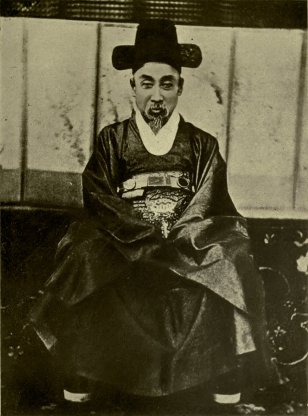 The Daewongun, photographed by Homer B. Hulbert (1863-1949). Photo 1898 or earlier. Published in USA 1906.